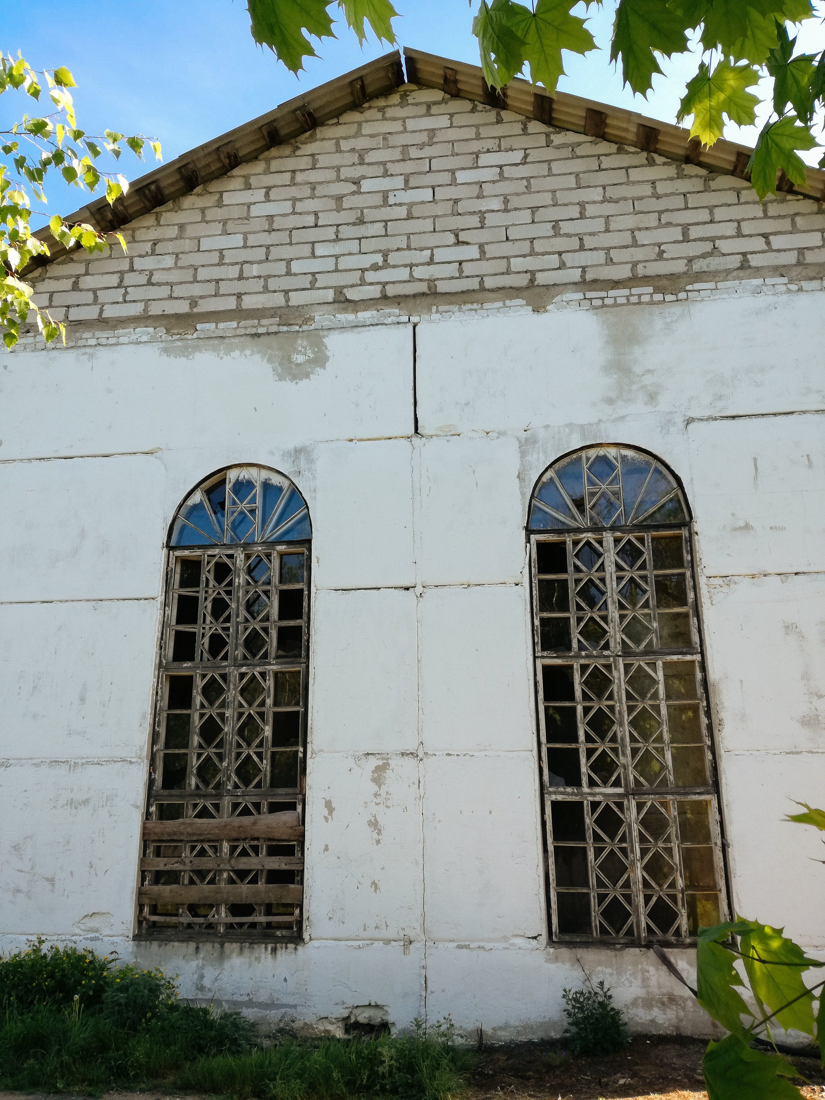 Brovar